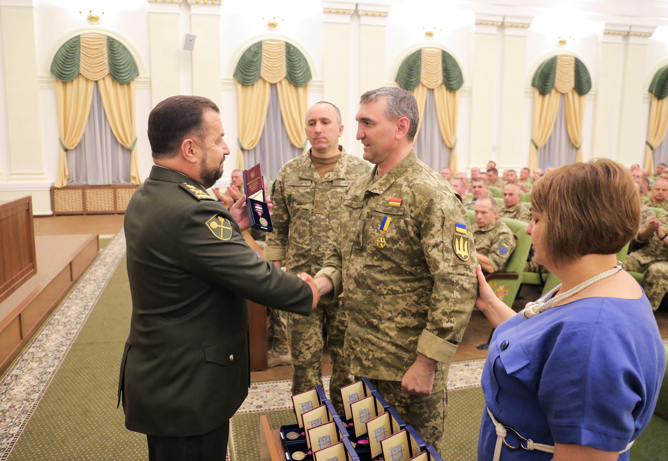 The first award ceremony with Wound Medal in Ukraine, Kyiv 2019